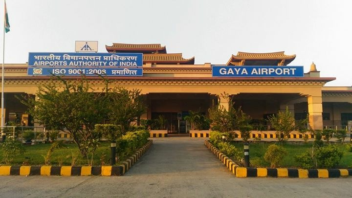 Gaya Airport-Bodh Gaya Airport is a airport located in the city Gaya in state of Bihar, India. IATA code for this airport is GAY.